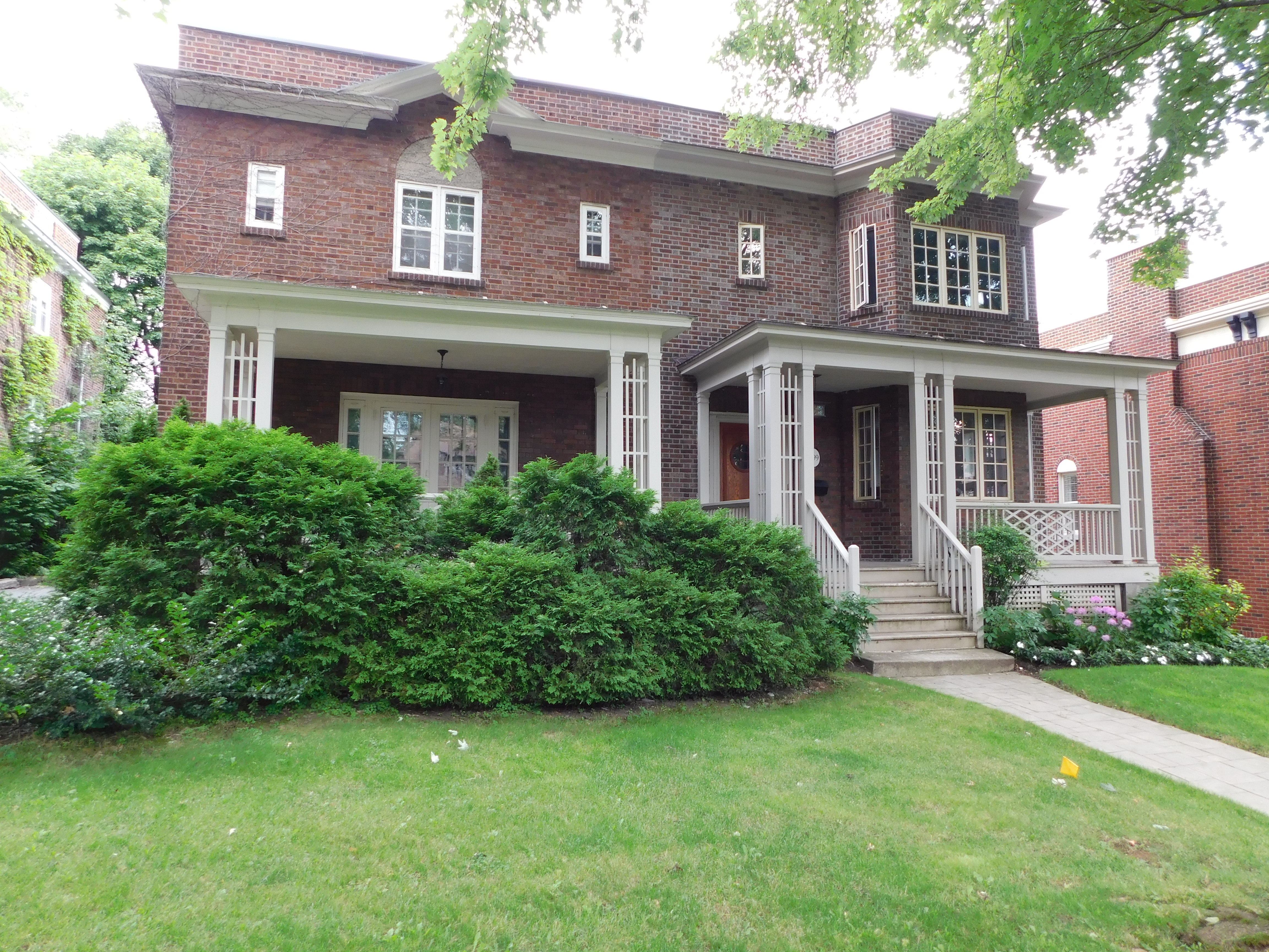 Leonard Cohen's Childhood Home, 599 Belmont Avenue, Westmount, Montréal